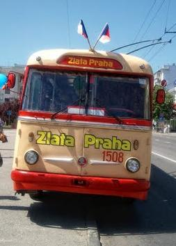 The trolleybus was constructed in 1974. Now an excursion trolleybus on Crimean Trolleybus Line, that the longest trolleybus line in the world (86 kilometres (53 mi) long)